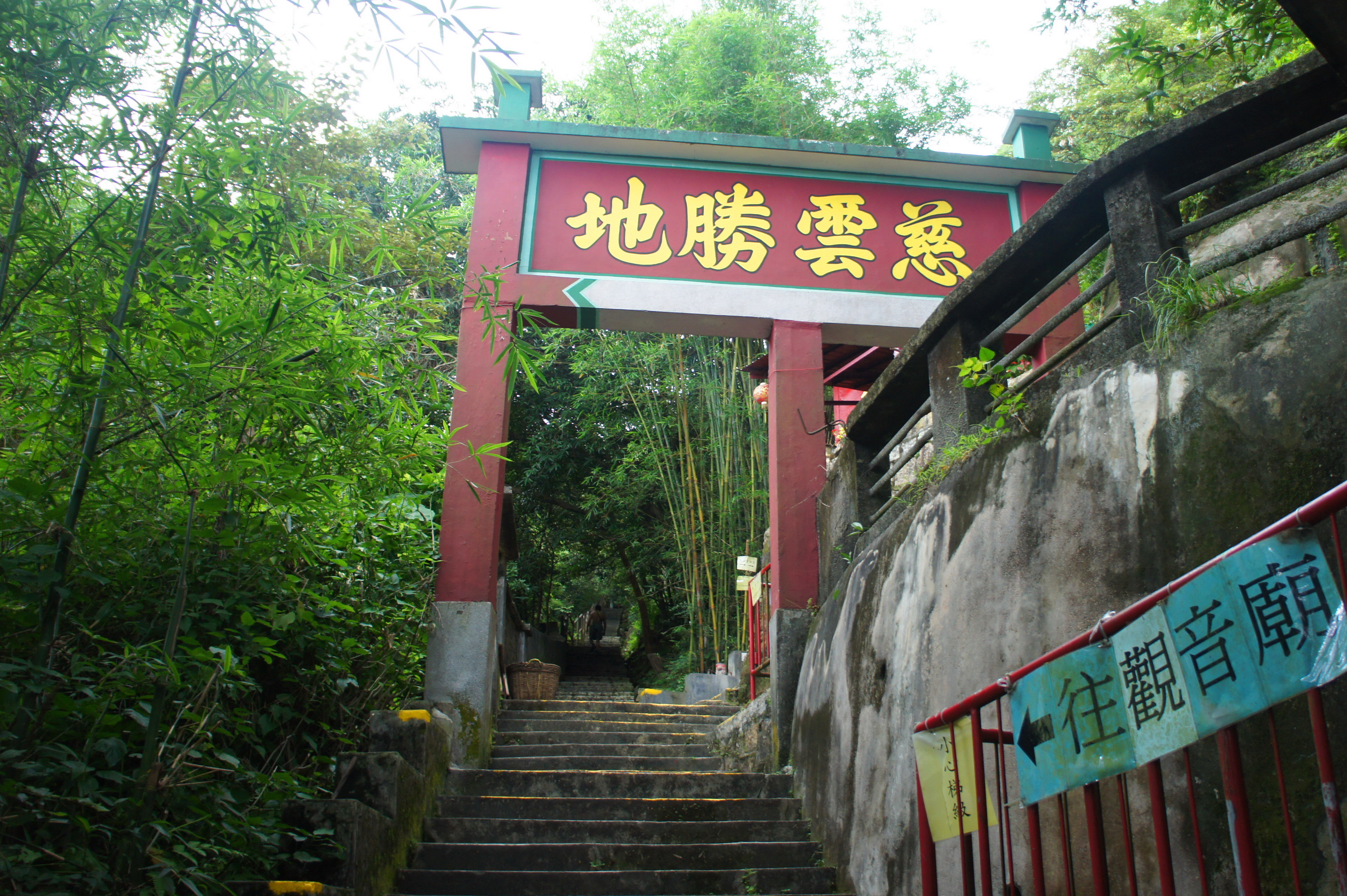 Tsz Wan Shan Kwun Yam Buddhist Temple, Tsz Wan Shan, Kowloon, Hong Kong.